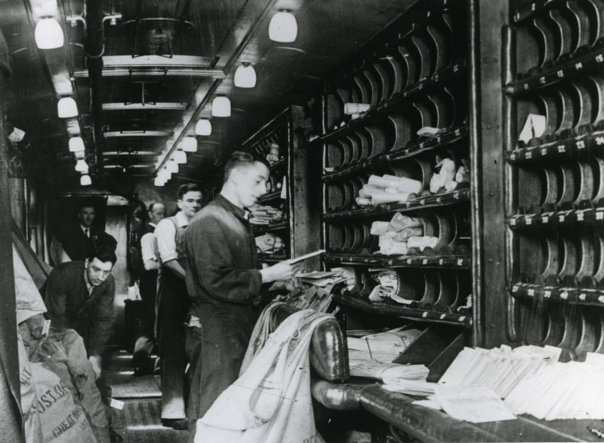 Image of TPO postal sorters in carriage with sorting frames from the documentary film Night Mail by the GPO Film Unit